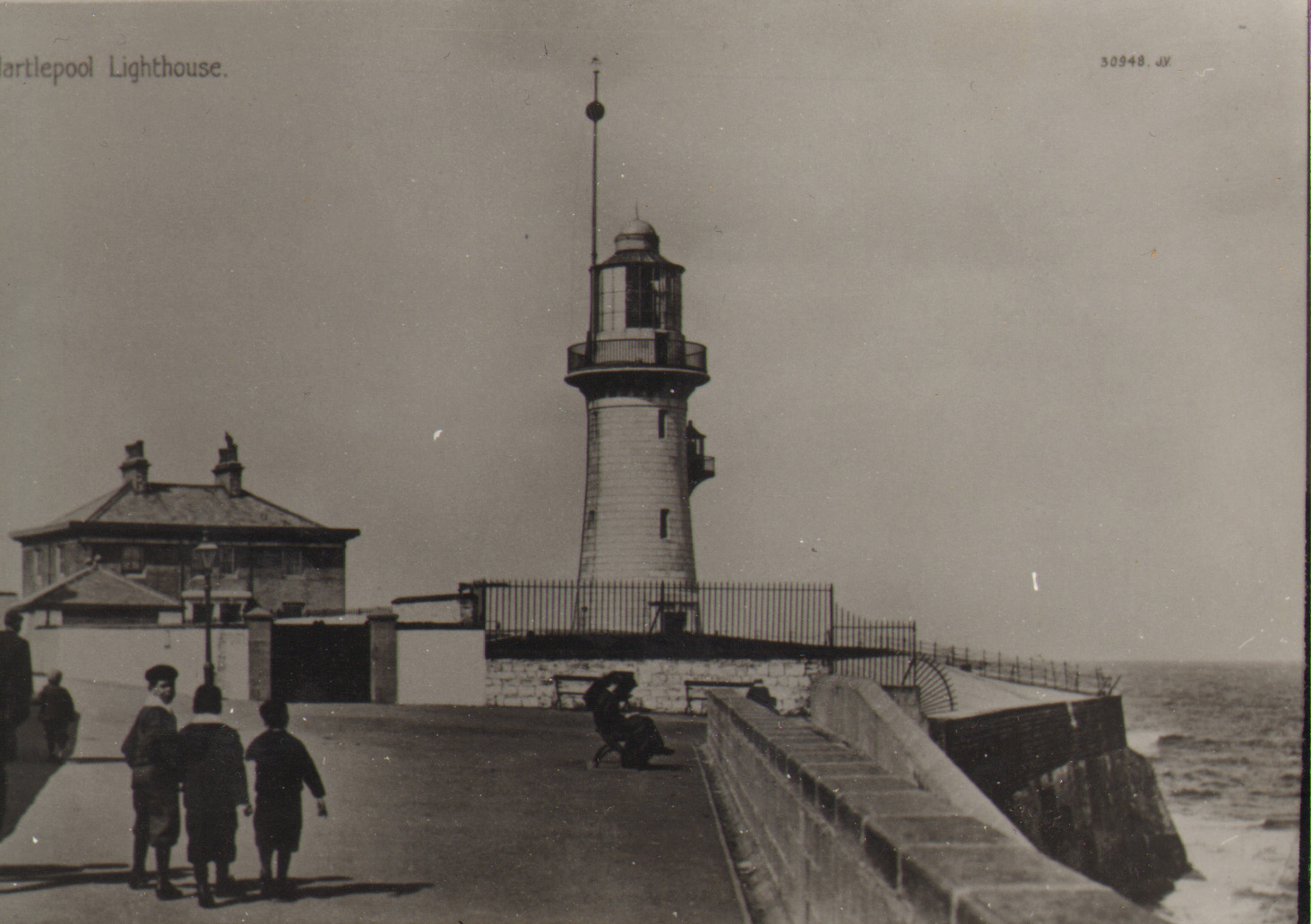 This is a photograph of the Heugh Lighthouse in Hartlepool. This is a pre-Bombardment image of the lighthouse. On Wednesday 16th December 1914, the German Navy attacked Hartlepool. The Heugh Gun Battery was placed near by and was the first main target of the German battle cruisers. Photograph Collection No : 8181 Images from Hartlepool Cultural Services that are part of The Commons on Flickr are labeled 'no known copyright restrictions' indicating that Hartlepool Cultural Services is unaware of any current copyright restrictions on these images either because the copyright is waived or the term of copyright has expired. Commercial use of images is not permitted. Applications for commercial use or for higher quality reproductions should be made to Hartlepool Cultural Services, Sir William Gray House, Clarence Road, Hartlepool, TS24 8BT. When using the images please credit 'Hartlepool Cultural Services'.